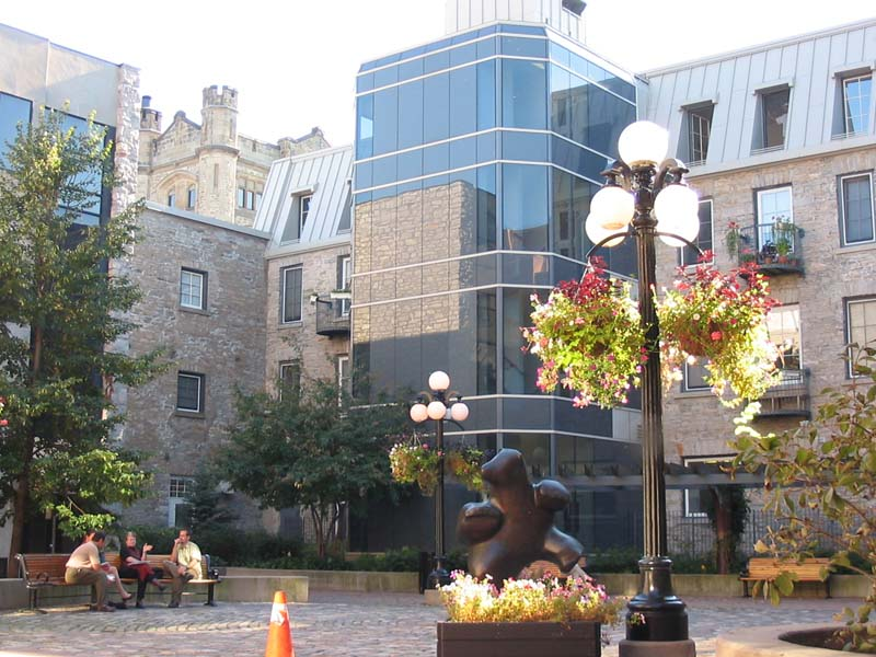 The courtyard behind Sussex Drive, in the Byward Market area of Ottawa